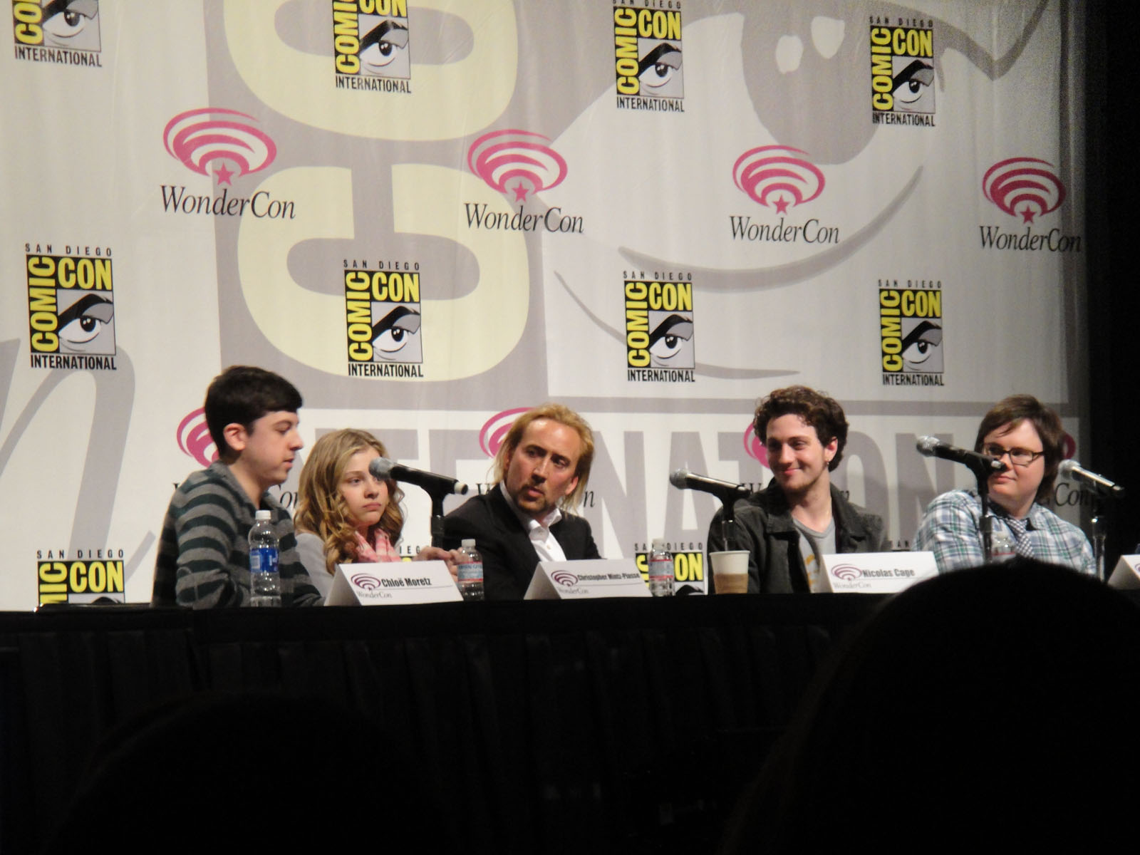 Kick-Ass panel - Christopher Mintz-Plasse, Chloë Grace Moretz, Nicolas Cage, Aaron Johnson, Clark Duke